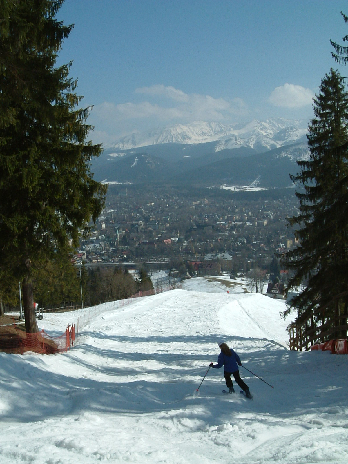 Zakopane - Gubalowka Hill ski run